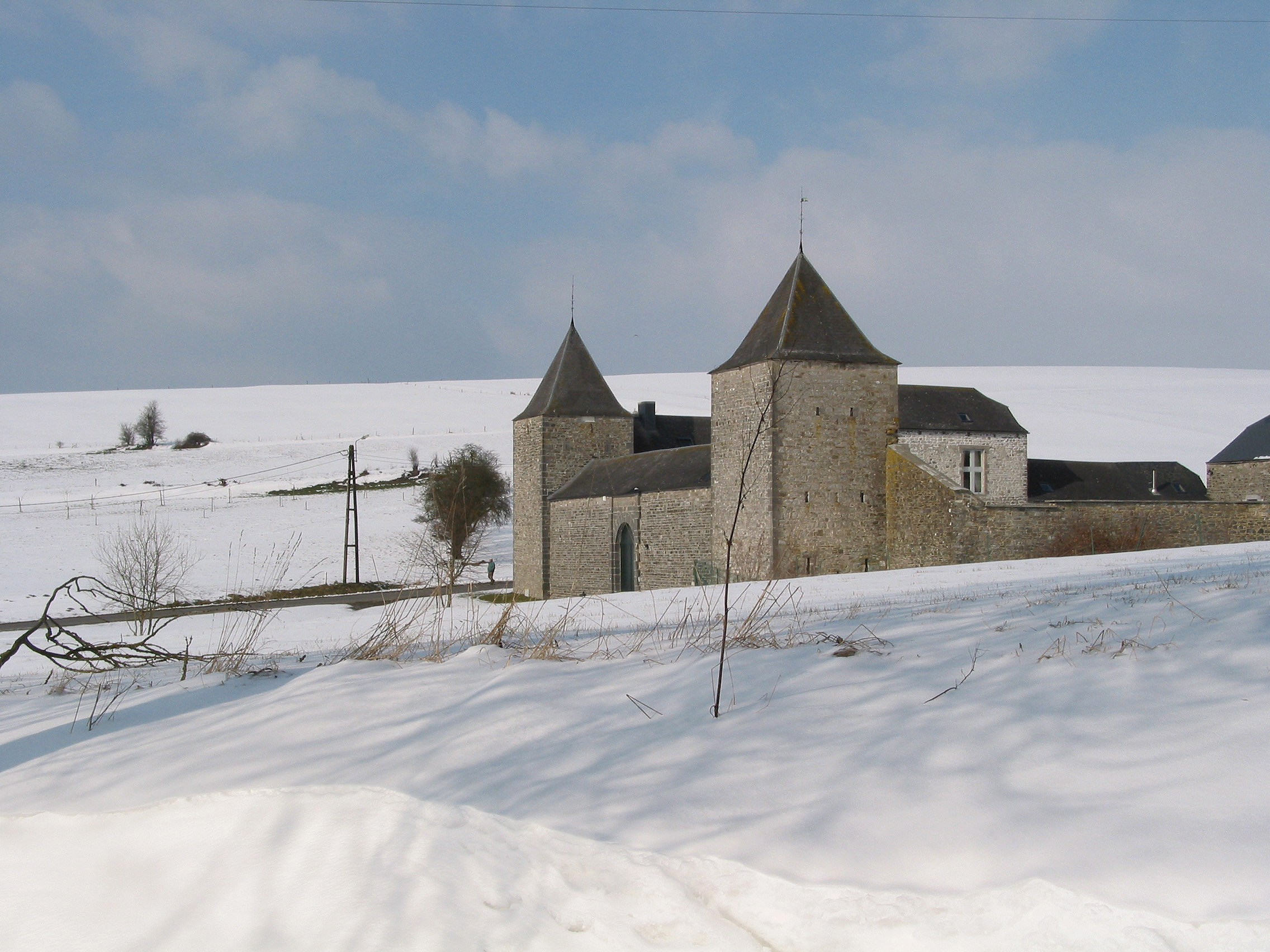 Natoye (Belgique), the castle farm (XVIIIe siècle).